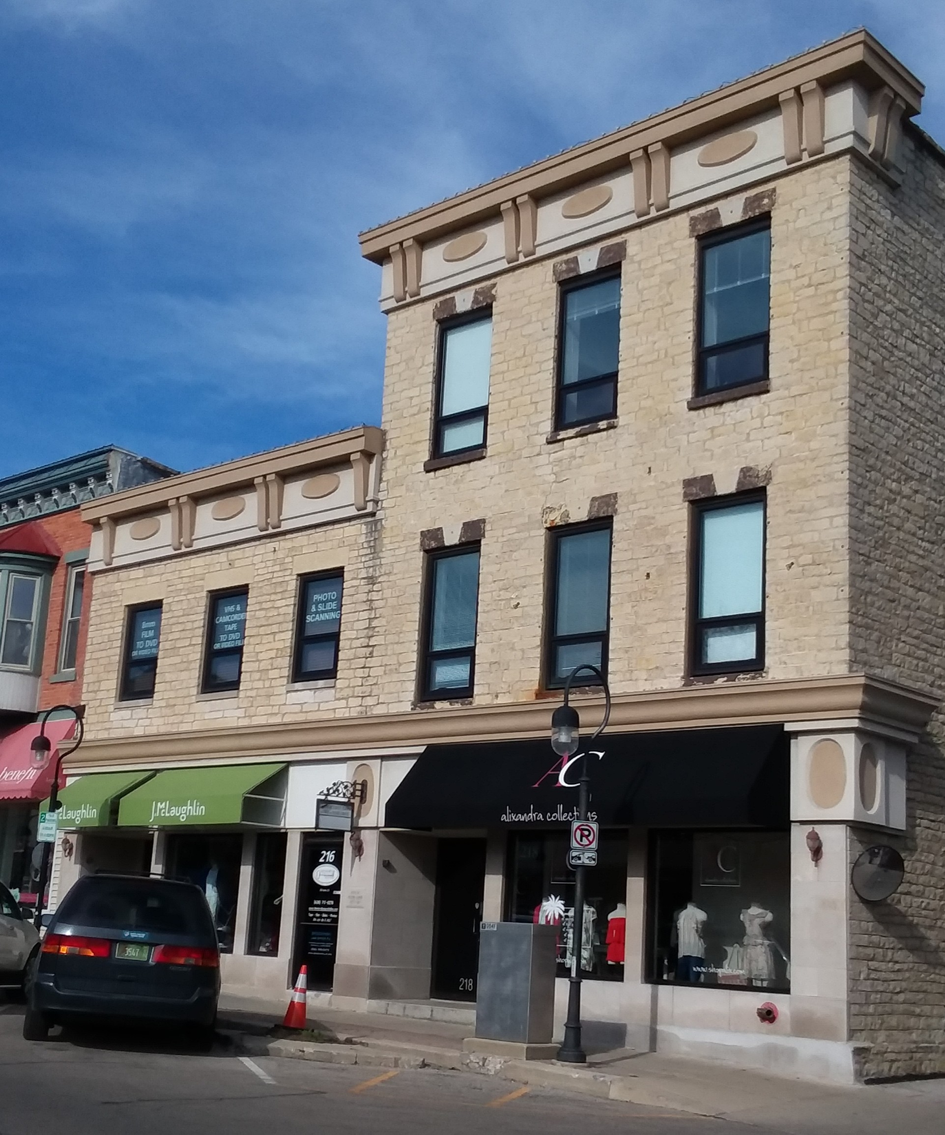 Naper's General Store (1847-1849) - This building at 216-218 Main Street, Naperville, IL, was designed and built by Joseph Naper, the city's founder. It has served as a store ever since. It is the only building remaining of Naper's many commercial enterprises. The Masonic Lodge was housed on the third floor. The building was used for public meetings for many years.